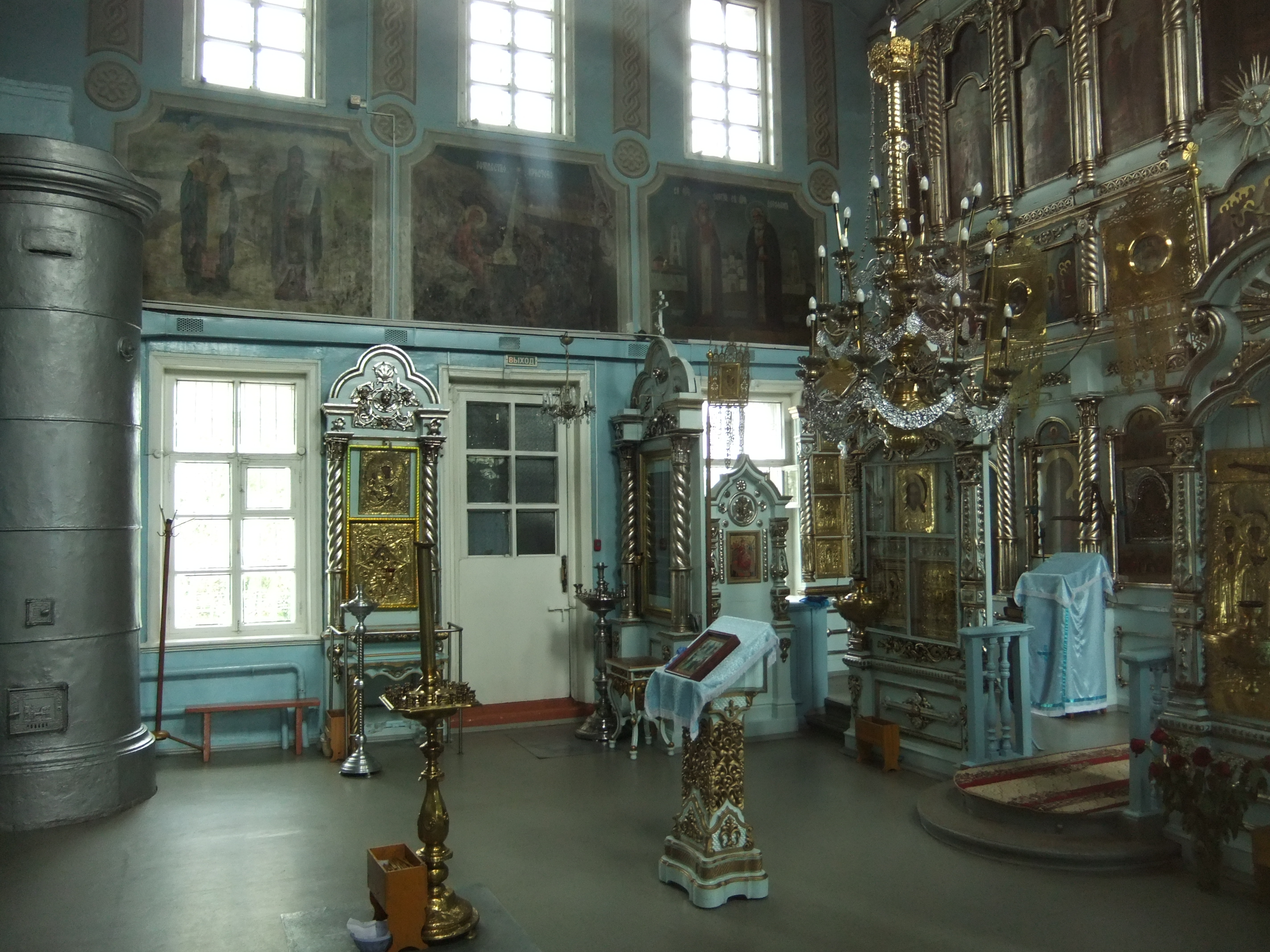 The interior of the church of the Theotokos of Kazan in Veliky Vrag, Kstovo District